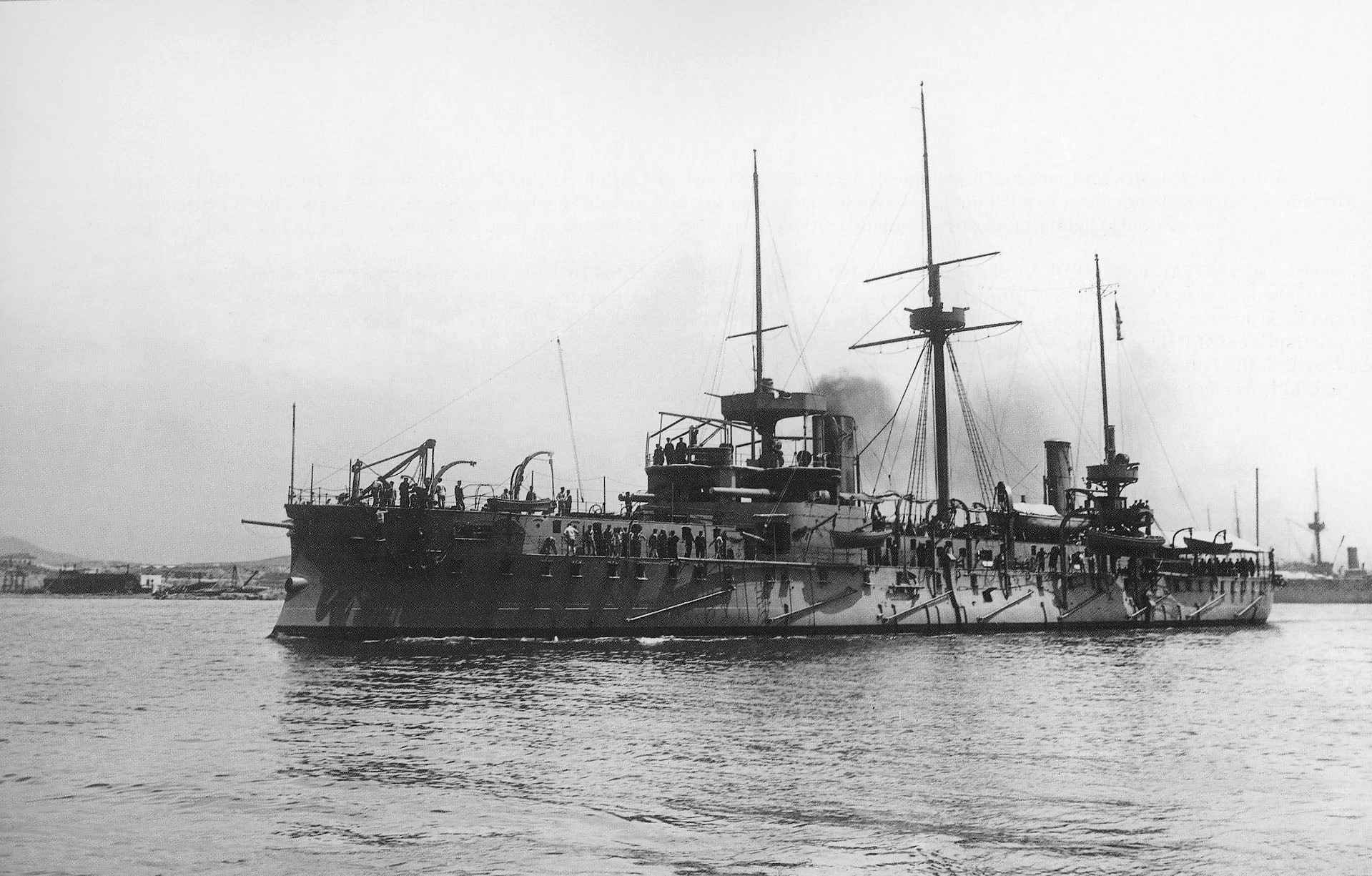 Battleship Psara of the Royal Hellenic Navy (1885-1920)